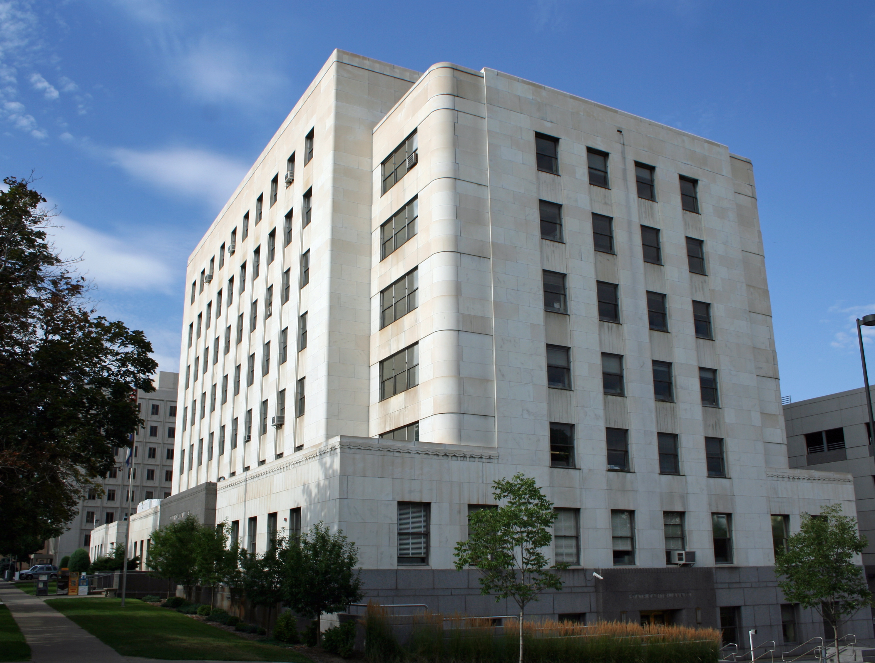 The Colorado State Capitol Annex Building and Boiler Plant, located at 1341 Sherman Street in Denver, Colorado